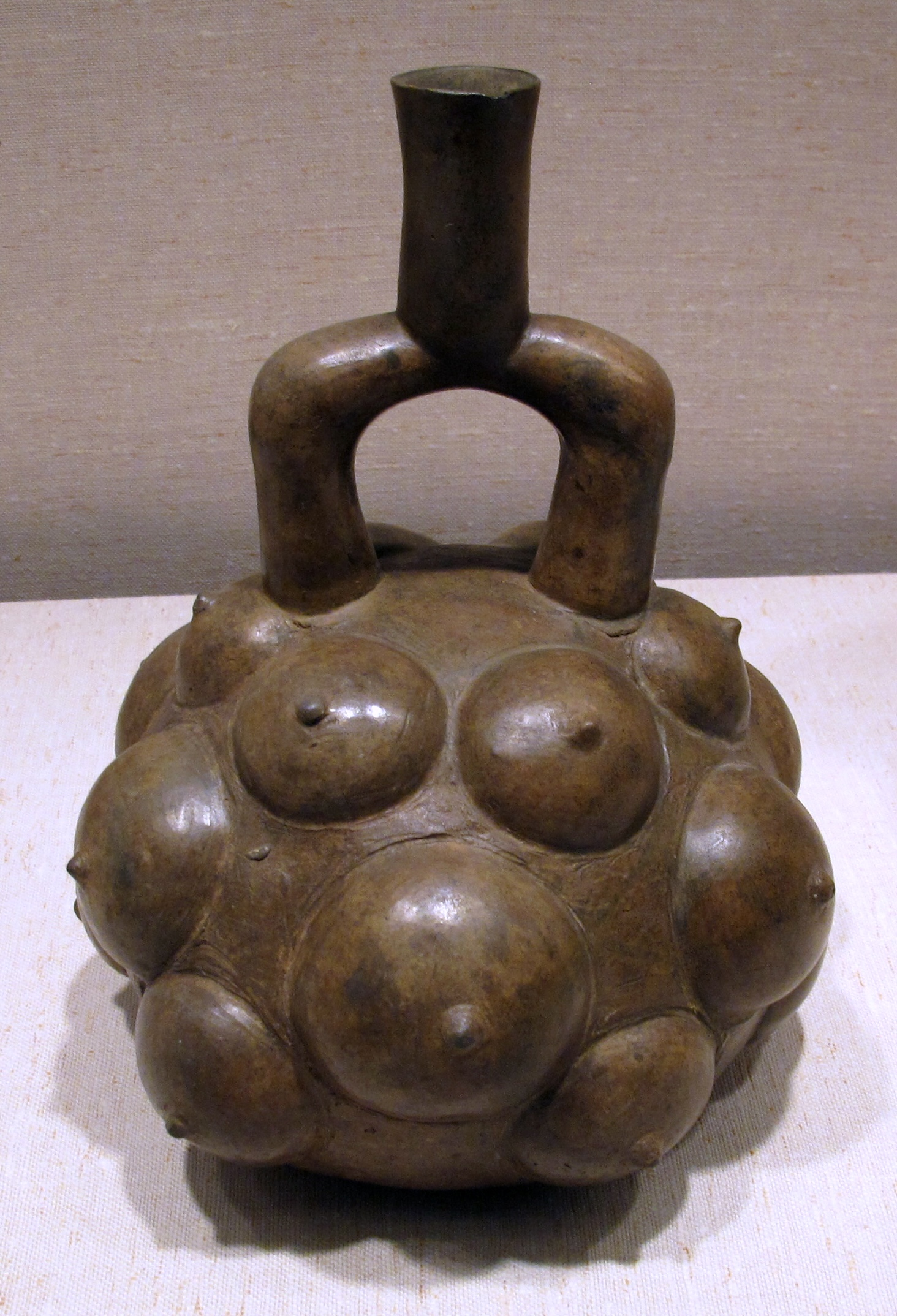 Pre-Columbian art in the Metropolitan Museum of Art